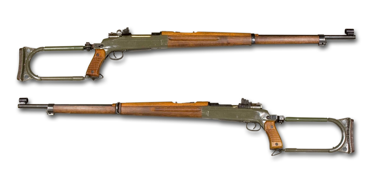 Biathlon rifle Mauser m/1896 chambered in 6.5x55 mm. Made in Sweden, Södermanland, Eskilstuna Serial number: 242640 Overall length: 1250 mm Weight: 4610 g Barrel length: 735 mm Image first published by Swedish Army Museum 11 August 2014 under Creative Commons license. Background has since been removed